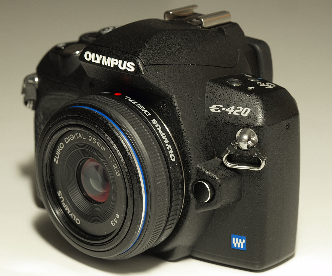 Olympus E-420 DSLR, with the 25 mm 2.8 "pancake" lens which was released together with the camera.